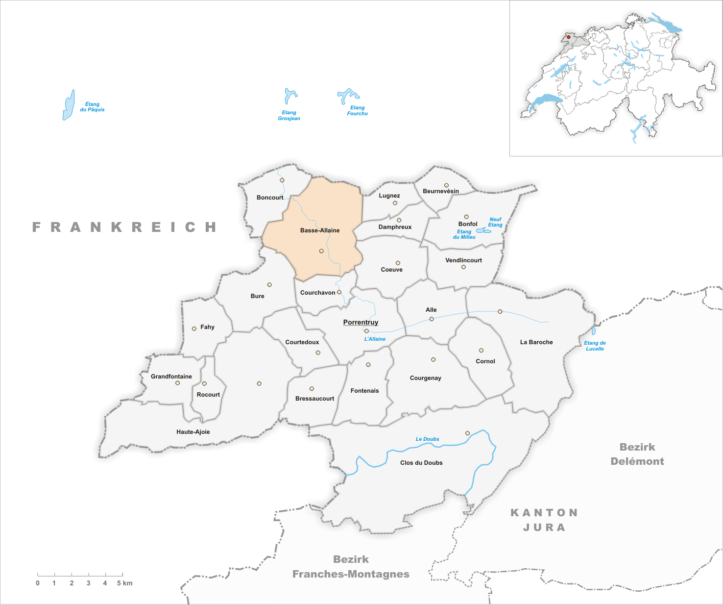 Municipality Basse-Allaine